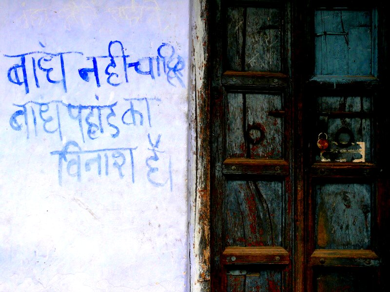 A protest message against Tehri dam, Garhwal, Uttarakhand